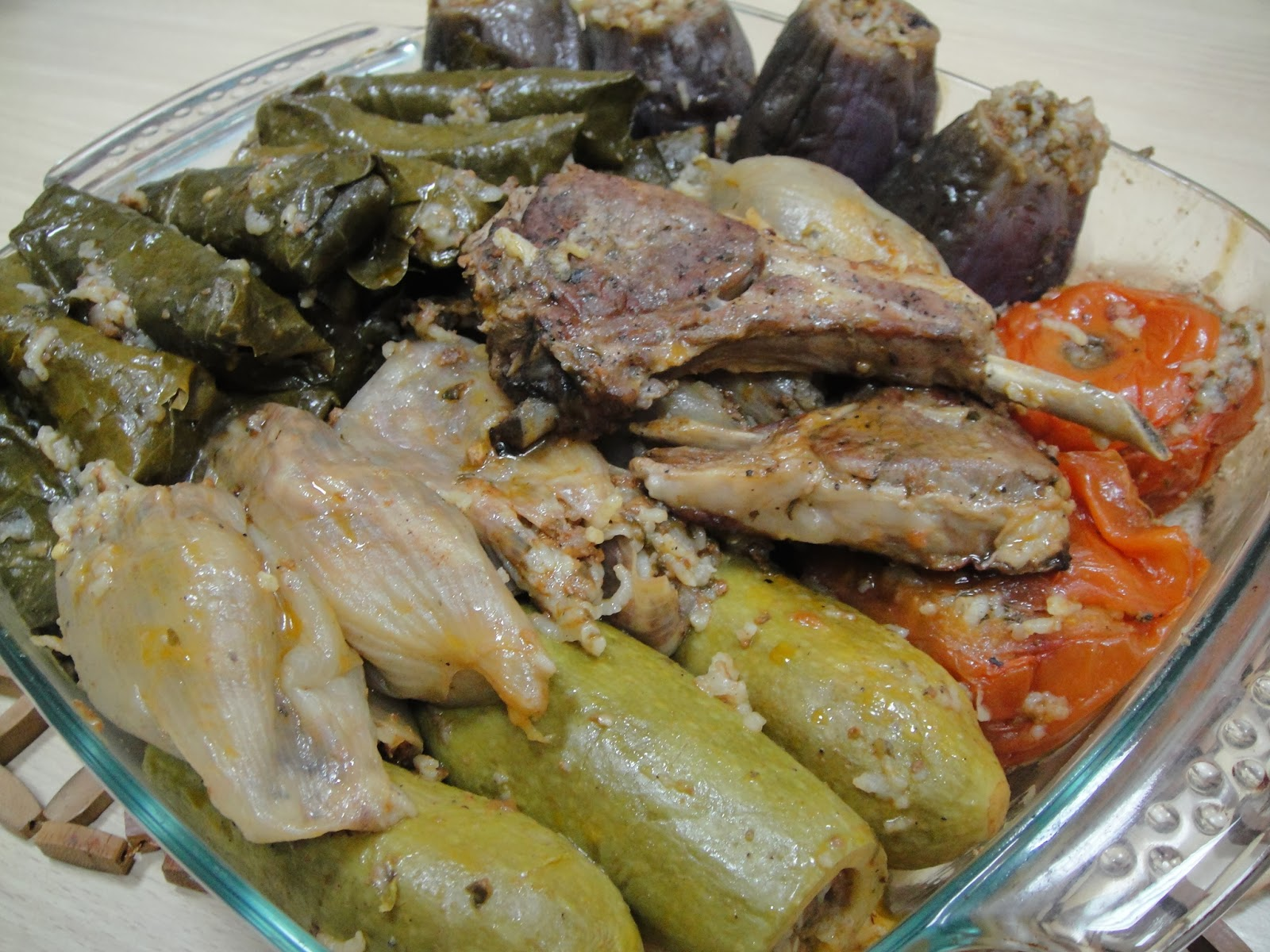 Iraqi dolma